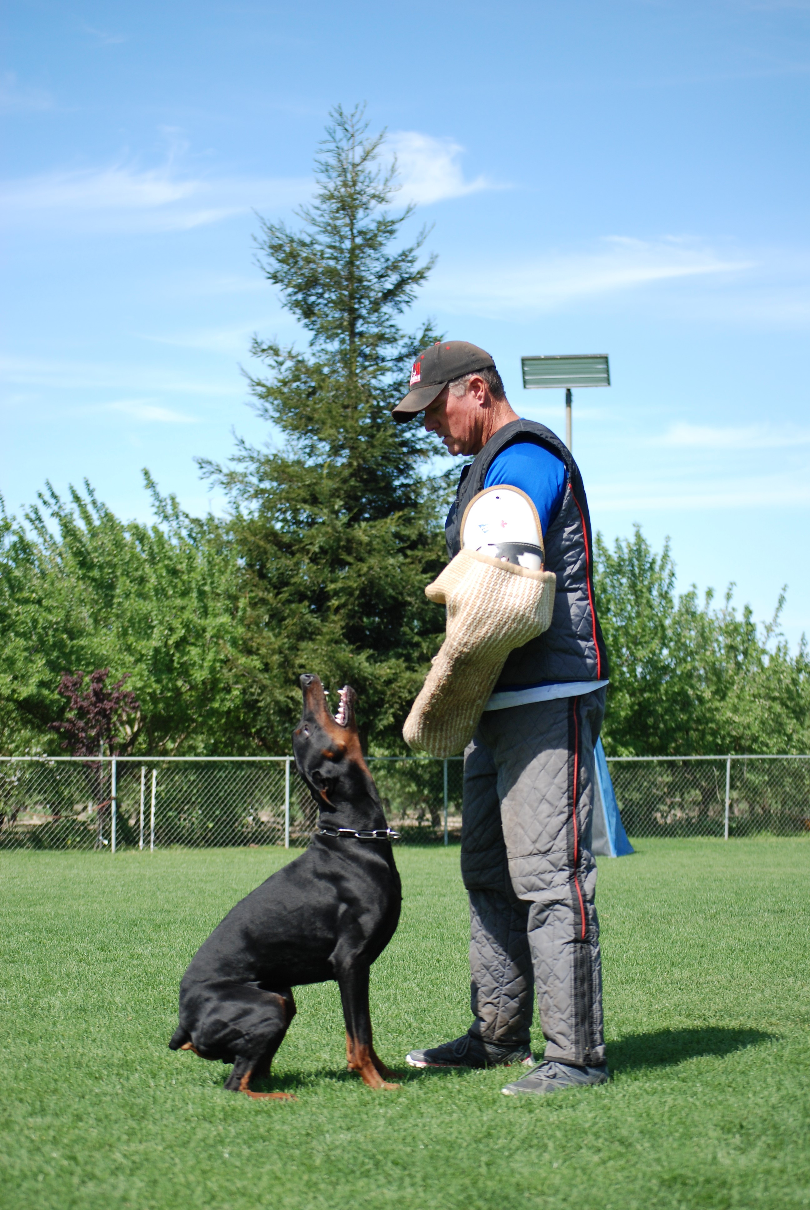 A Doberman at a Schutzhund trial during the protection phase, guarding the decoy (man)